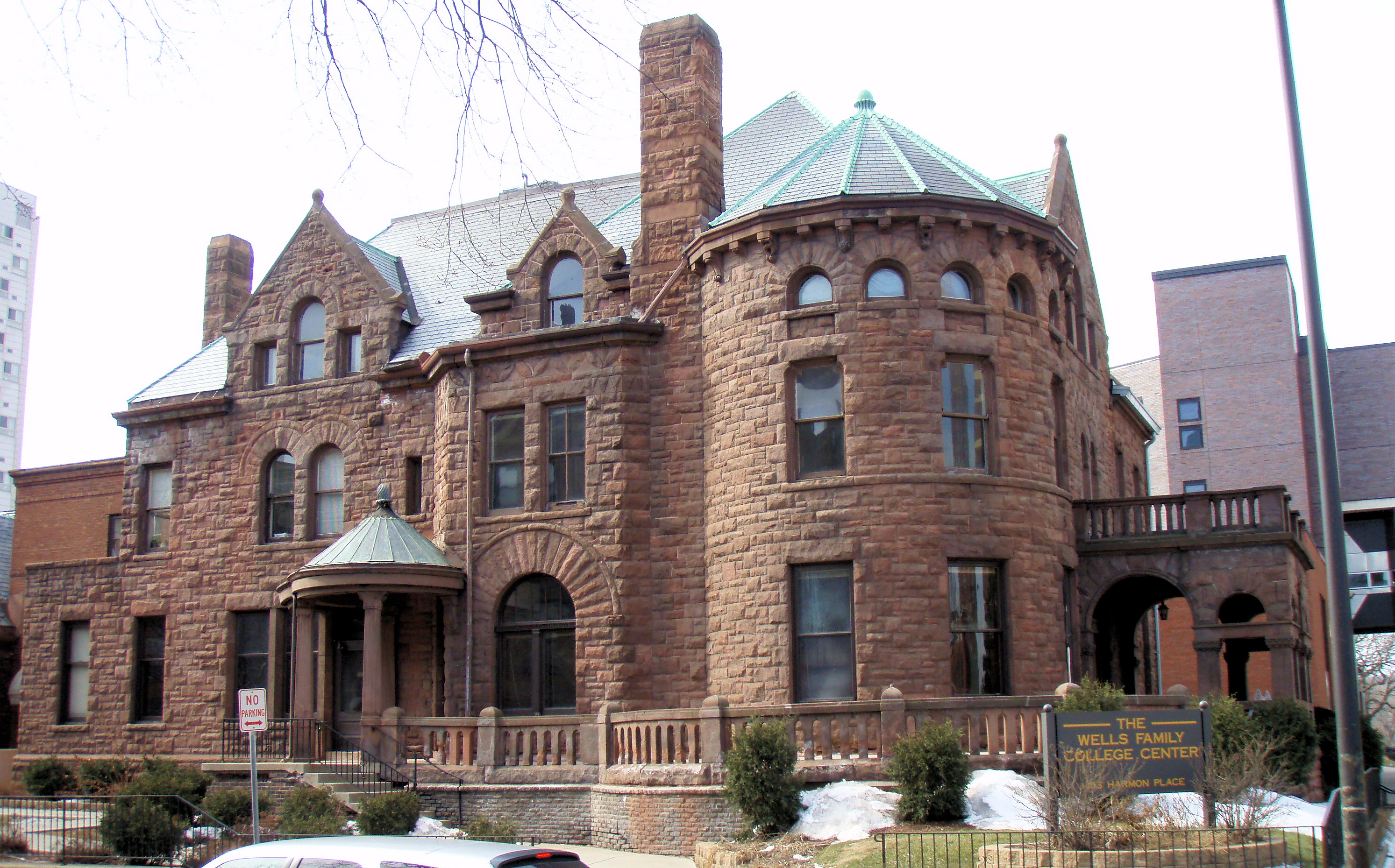 H. Alden Smith House in Minneapolis, Minnesota, listed on the National Register of Historic Places.